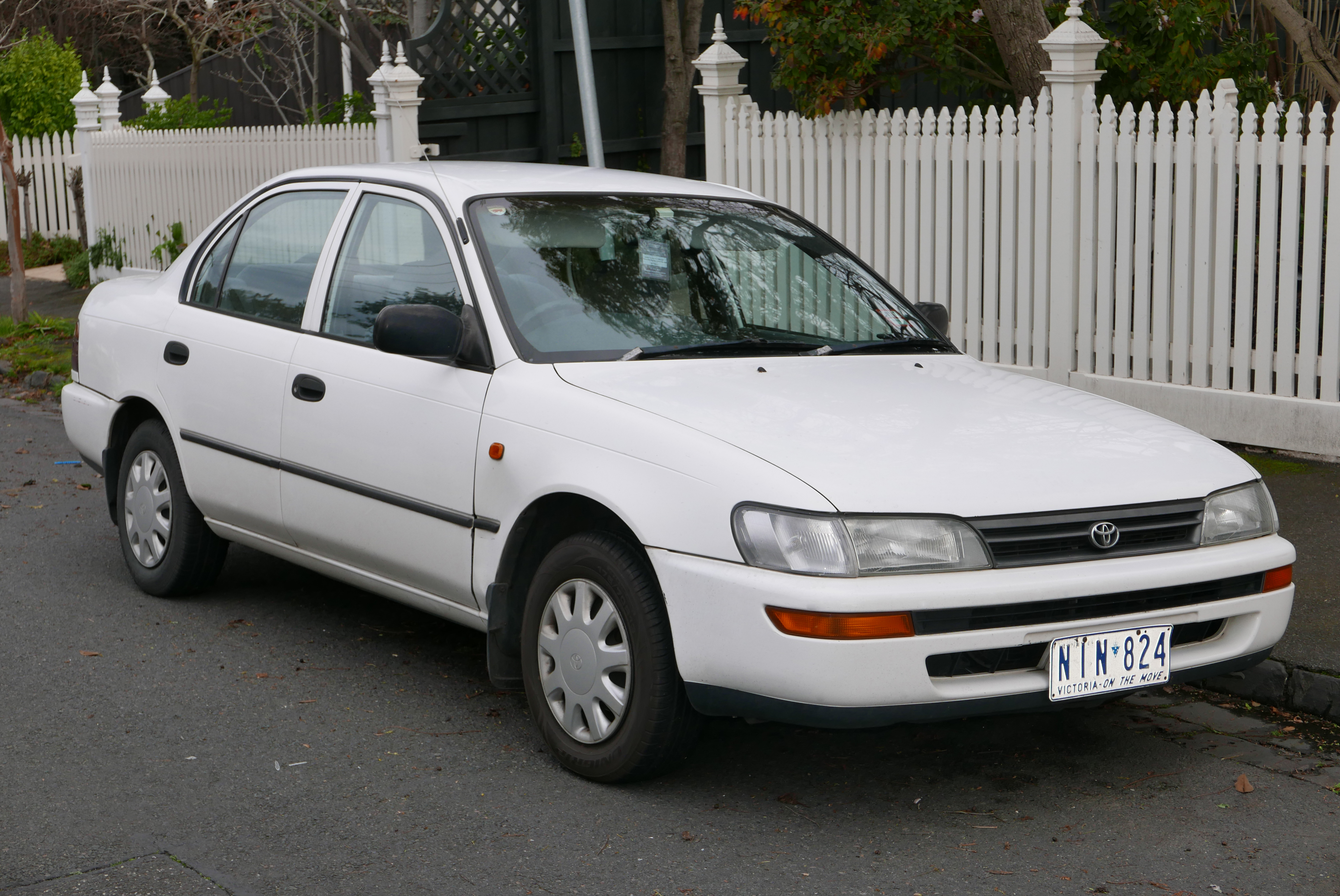 1995 Toyota Corolla (AE101R) CSi sedan. Photographed in Hawthorn East, Victoria, Australia. Vehicle registration enquiry results Jurisdiction Victoria Registration NIN824 Chassis code 6T153AEA10D001978 Engine code 4A9209611 Compliance date 1995-06 Year of manufacture 1995